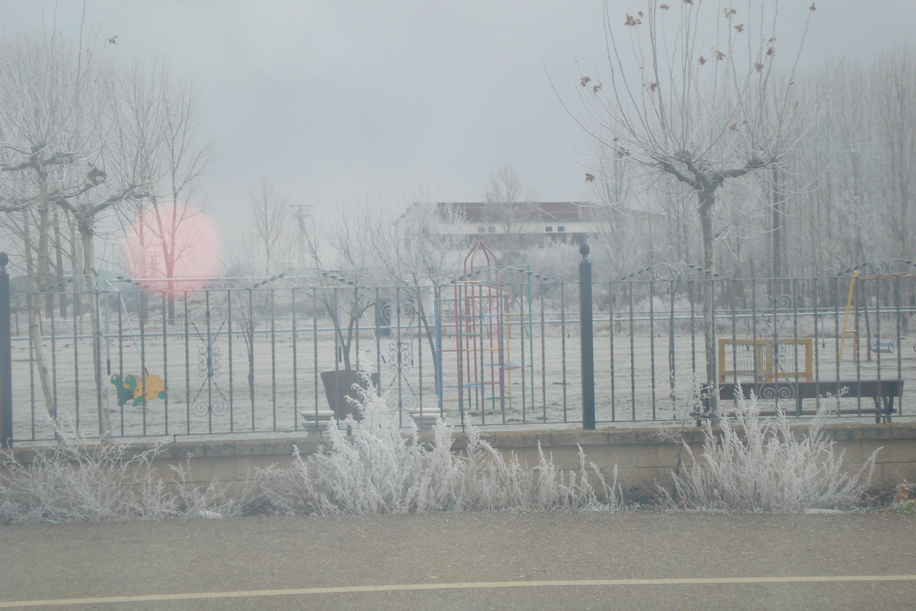 Parque de San Pedro de Ceque